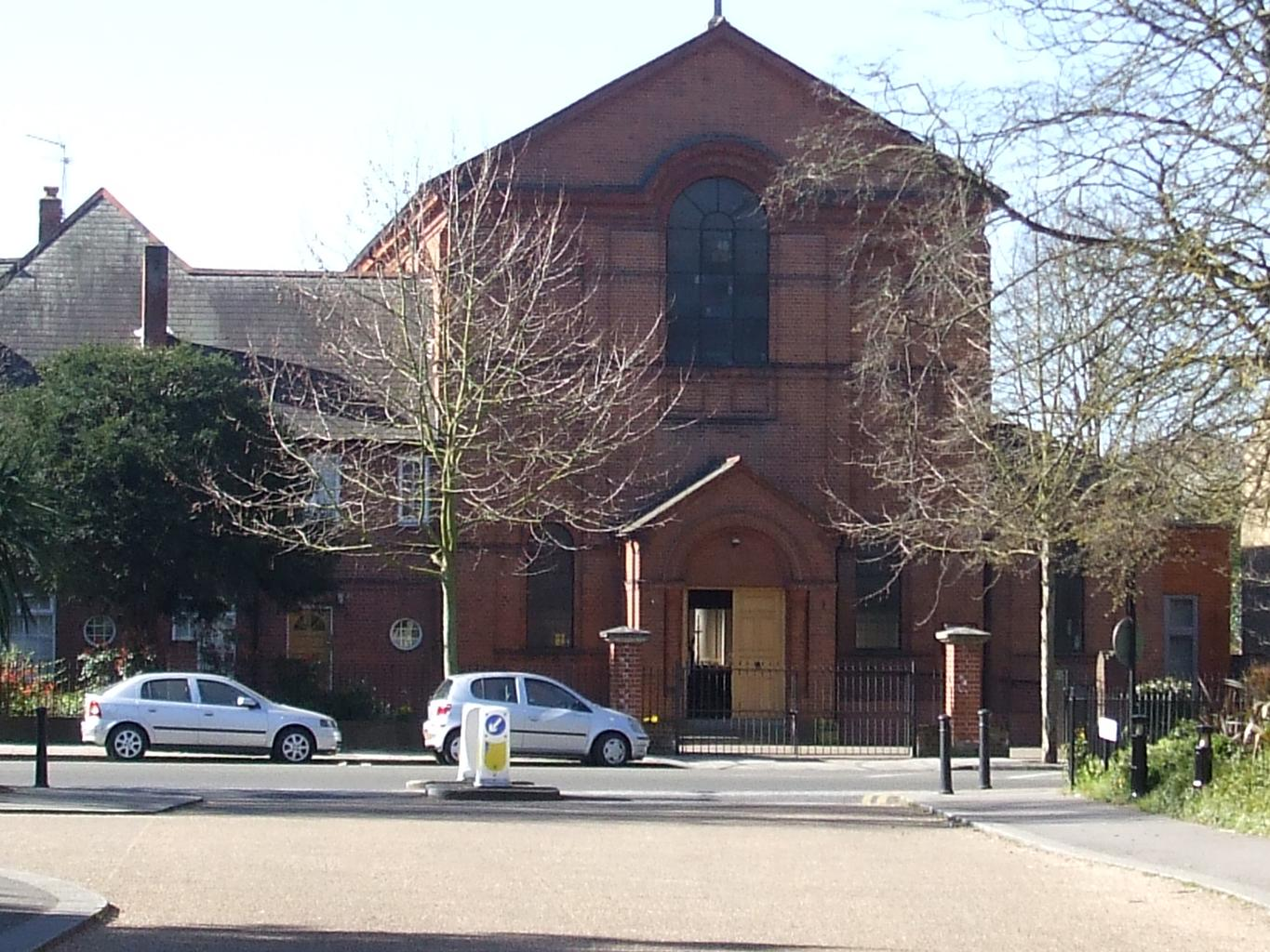 Roman Catholic Church of the Sacred Heart, Kingston Road, Teddington, Middlesex, seen from the east. Designed by Kelly & Birchall and completed in 1893.